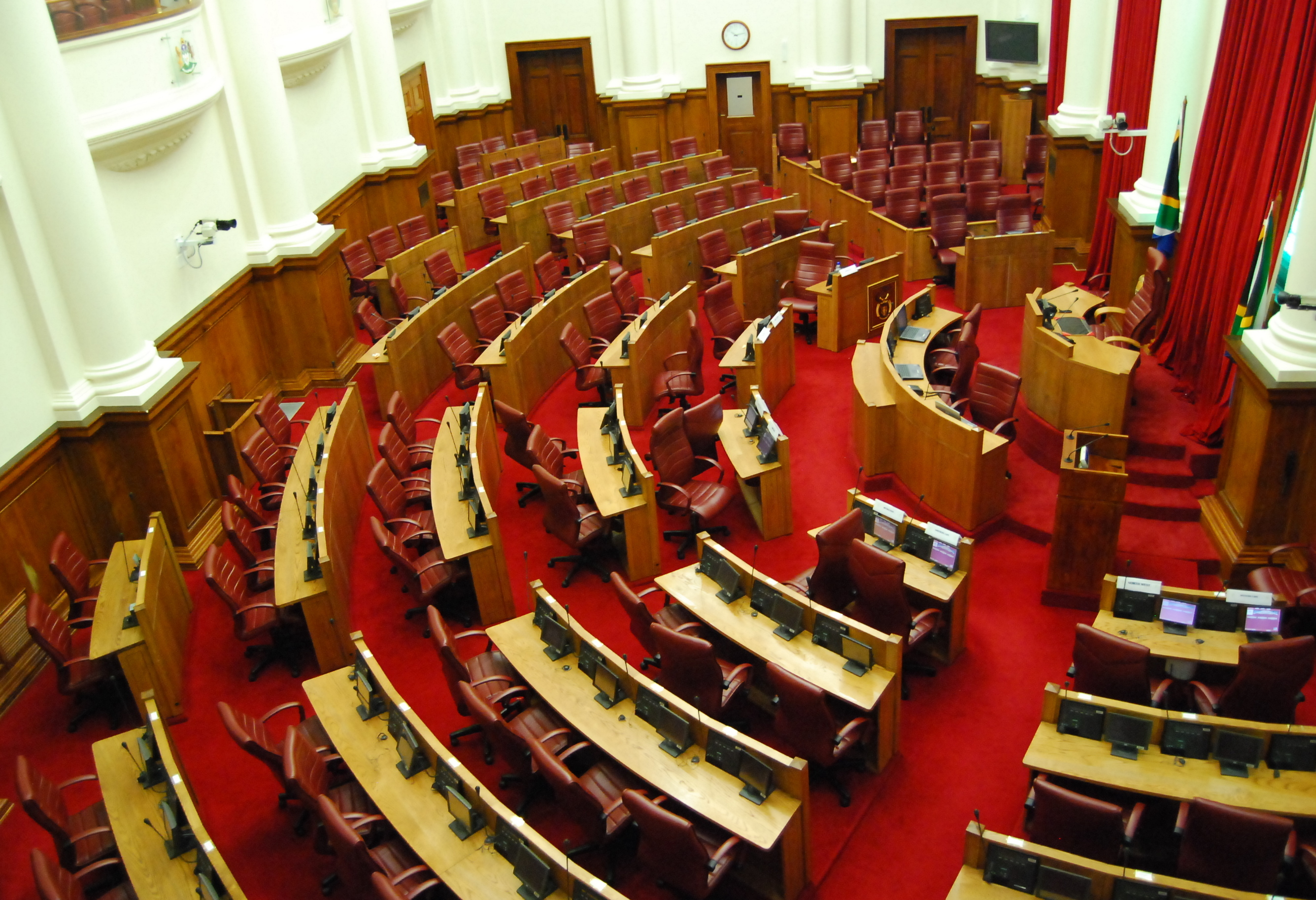 National Assembly of South Africa